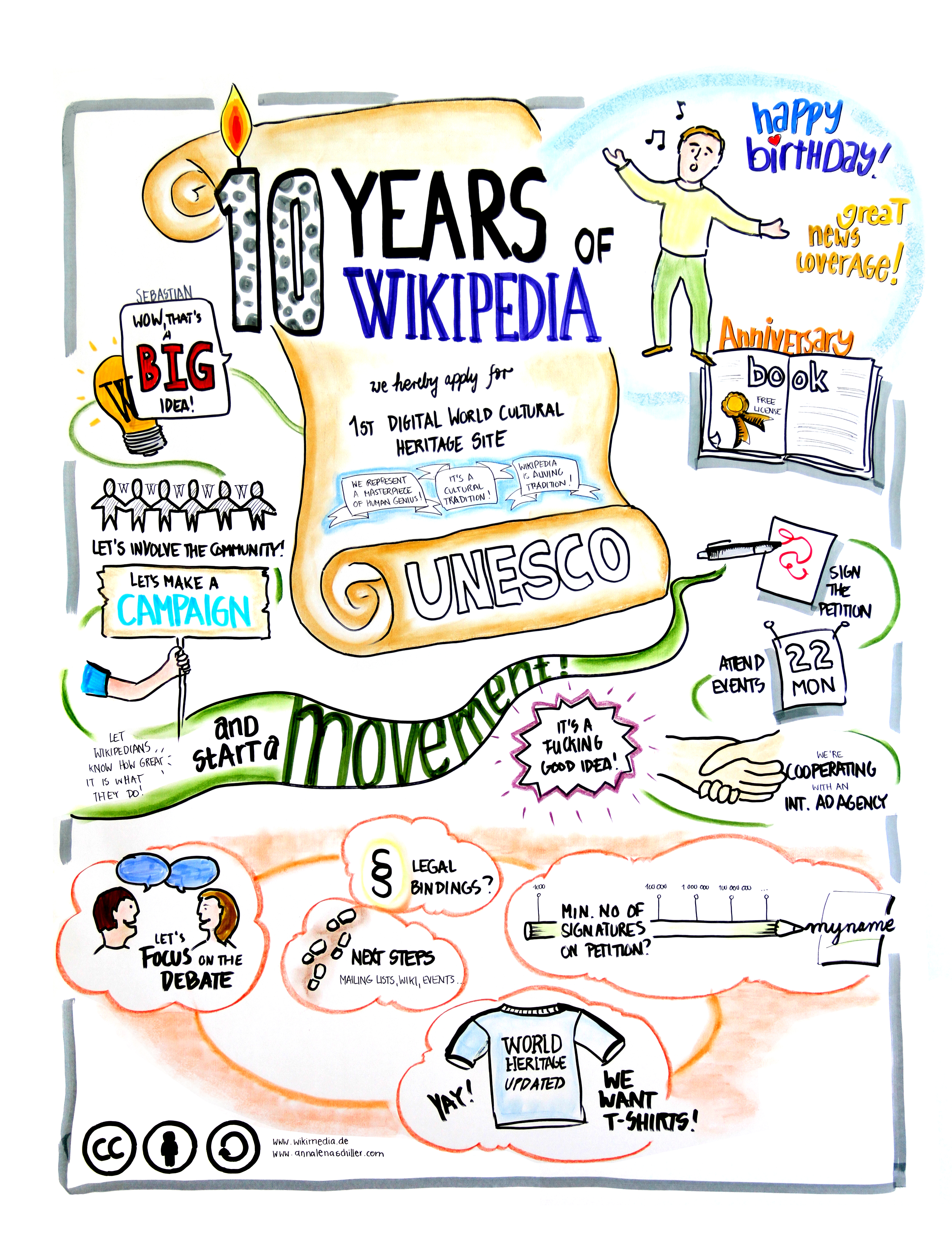 Wikimedia Conference 2011, Berlin, Visual Documentation